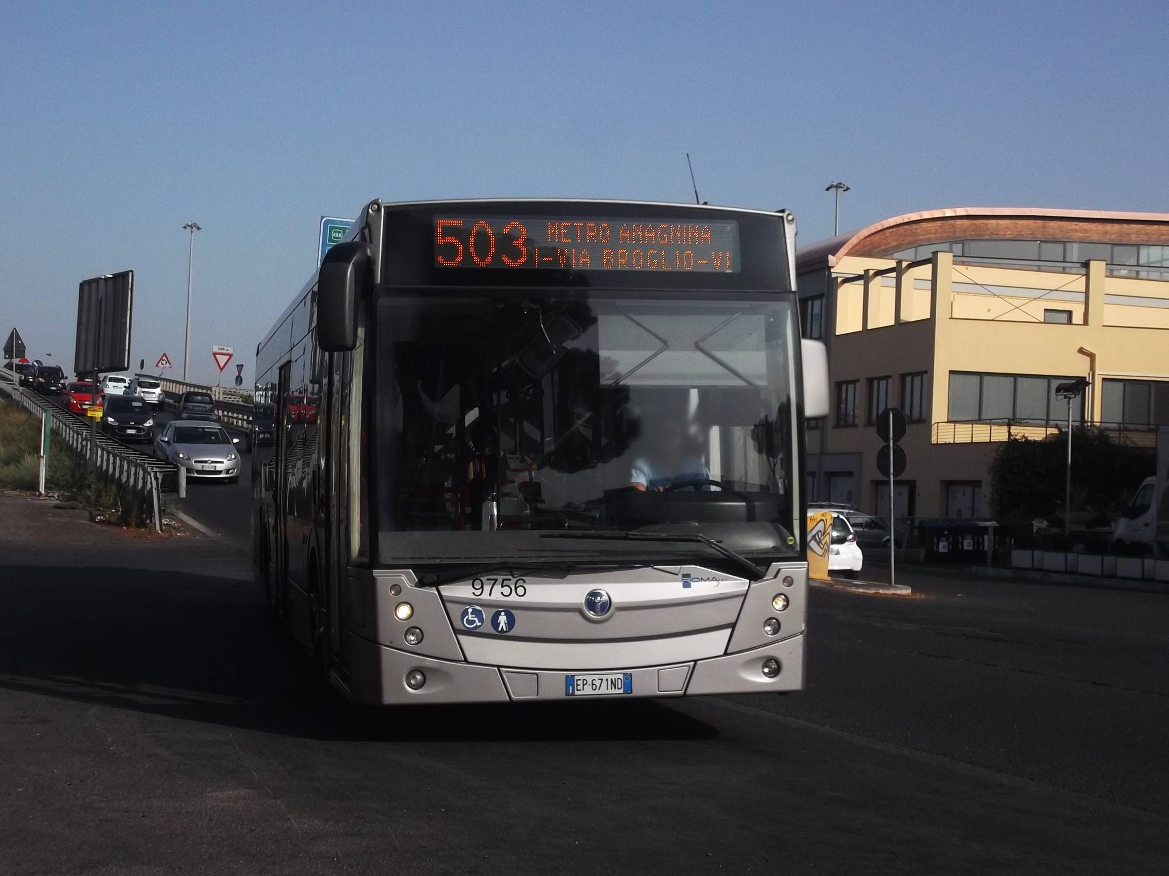 A Roma TPL Temsa Avenue LF (number 9756) serving on line 503 in Rome.